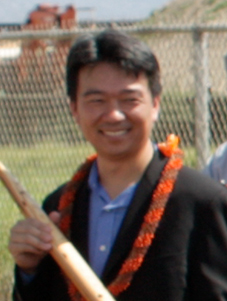 Government officials at the symbolic groundbreaking ceremony for the Honolulu High-Capacity Transit Corridor project. Pictured from left to right are Hawaii State Senator (4th district) and President Shan Tsutsui, Hawaii State House of Representatives member (20th district) and Speaker Calvin Say, Hawaii Lieutenant Governor Brian Schatz, U.S. Congressmember (Hawaii 1st district) Colleen Hanabusa, U.S. Senator Daniel Akaka, U.S. Senator and President pro tempore Daniel Inouye, Honolulu Mayor Peter Carlisle, Honolulu City Councilmember (district 9) and Chairman Nestor Garcia, City and County of Honolulu Department of Transportation Services Director Wayne Yoshioka, City and County of Honolulu Department of Transportation Services Rapid Transit Division Chief Toru Hamayasu, and former Honolulu Mayor Mufi Hannemann.